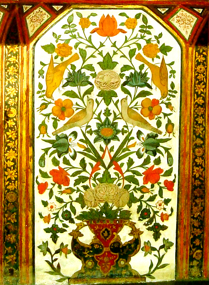 Paintings on the wall of Khan palace in Shaki (Azerbaijan)